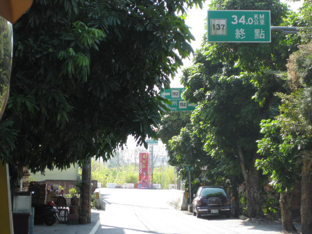 The end of County Route No. 137 in Ershuei Township,Chanhua County,Taiwan.